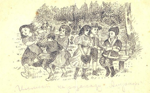 Illustration for "Ahraf" story